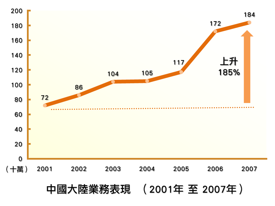 the chart showing the growth in mainland business of TVB